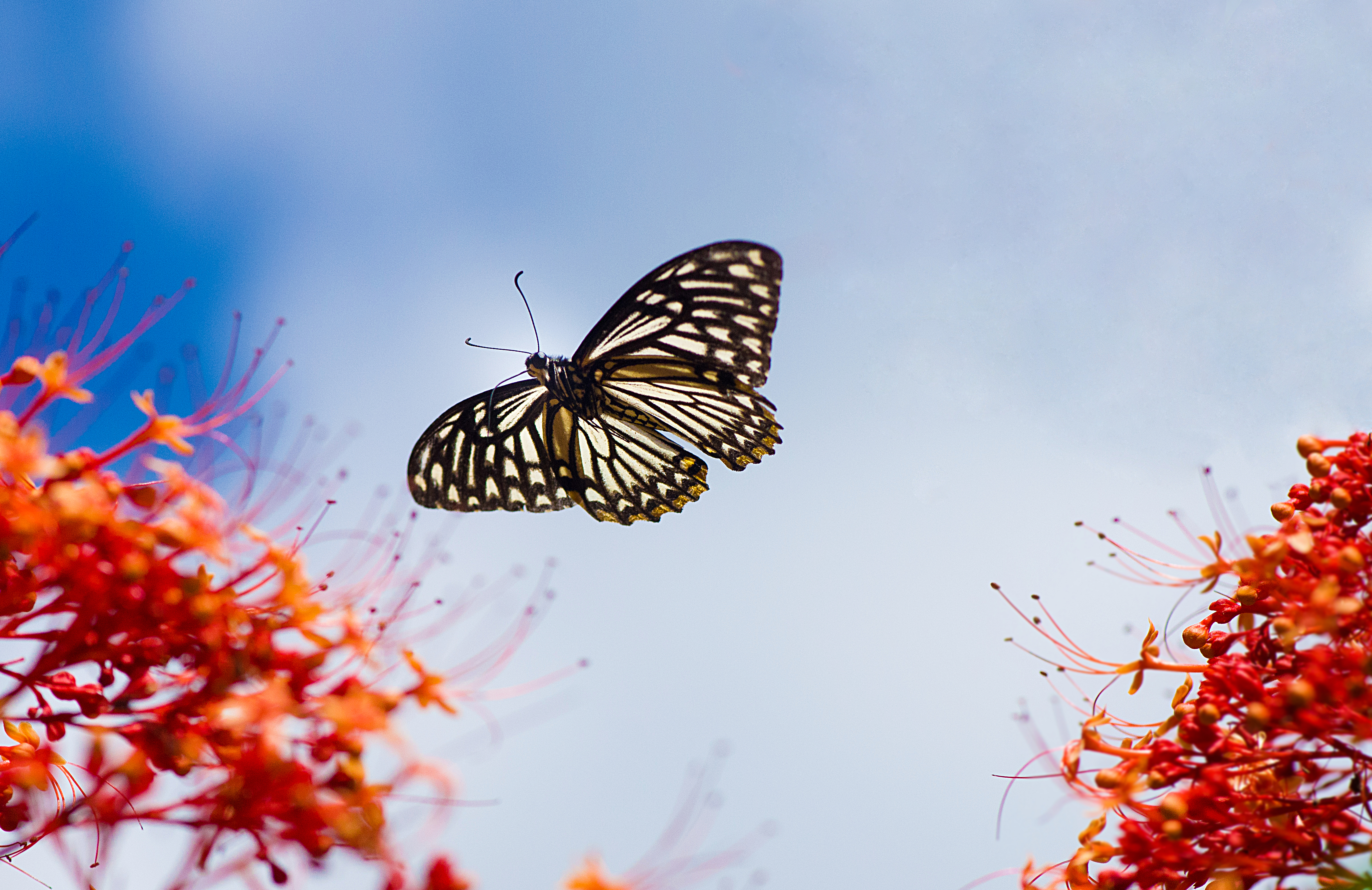 Papilio clytia form dissimilis recorded from Chamakkavu,Kannur District in Kerala,India.